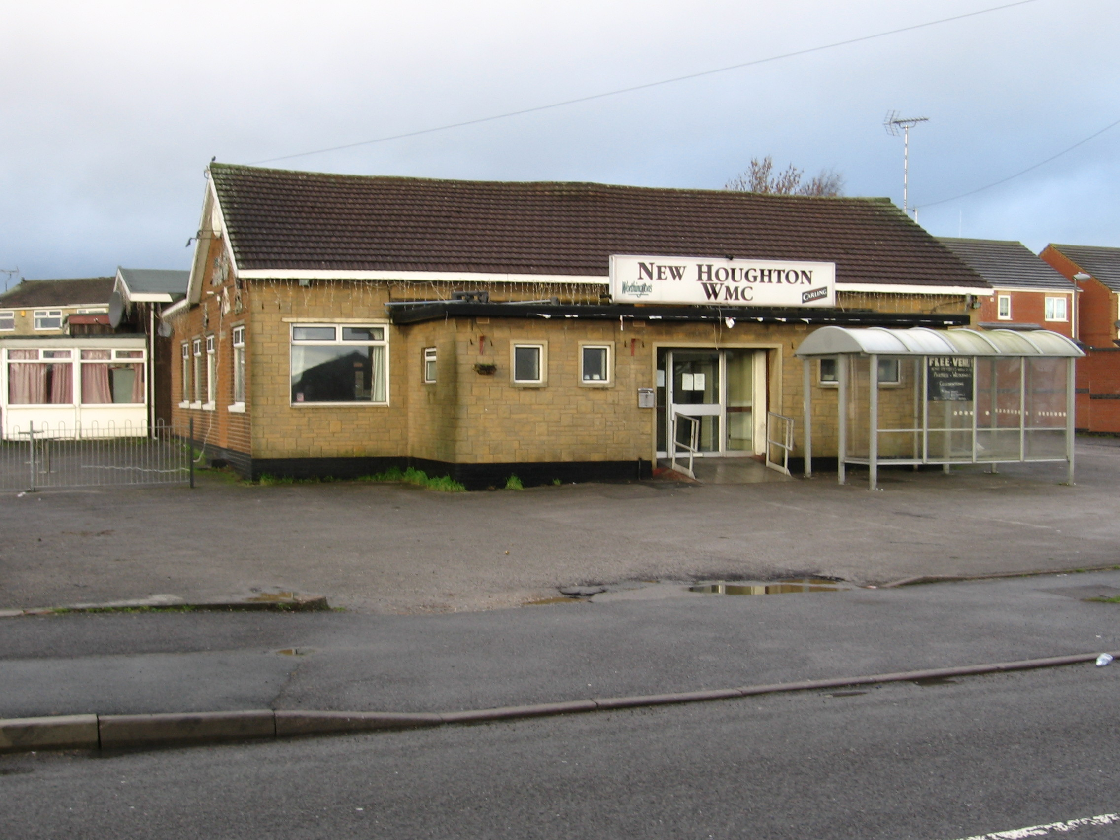 New Houghton - Working Mens Club